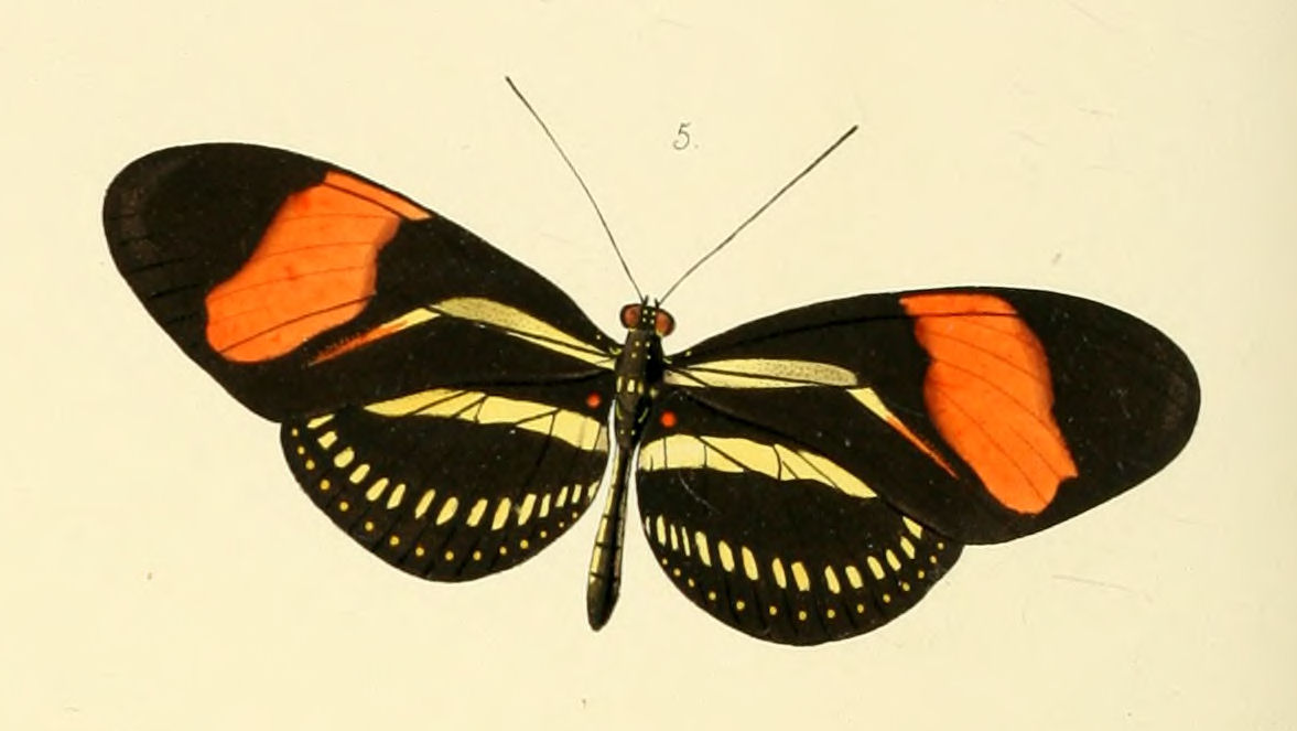 Plate: Heliconia II Heliconia hermathena. Fig. 5. Accepted as Heliconius hermathena Hewitson, 1854.